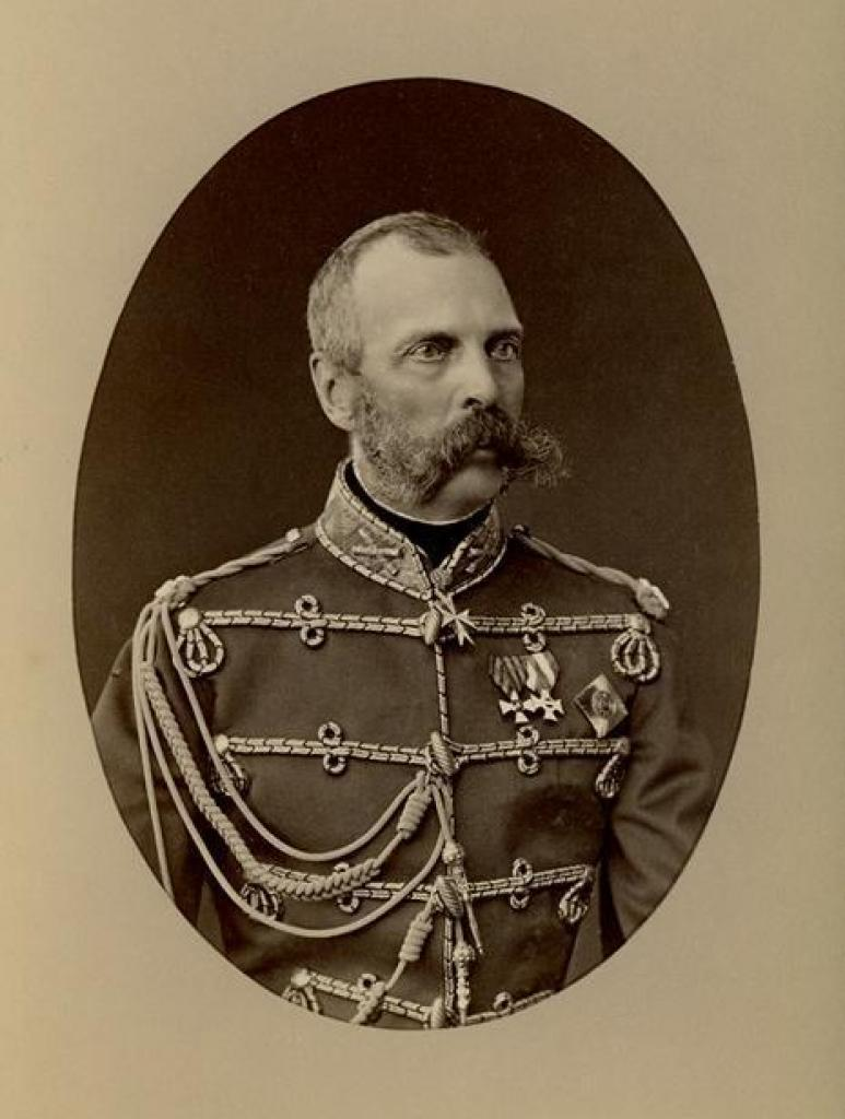 Russian Imperial Family Photo